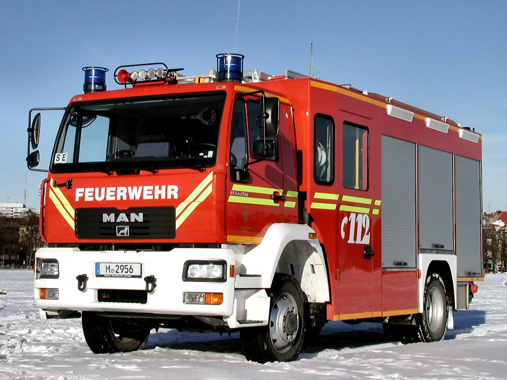 LF 16/12 of the Munich Volunteer Fire Brigade - Sendling Department at Theresienwiese in Munich, 2004